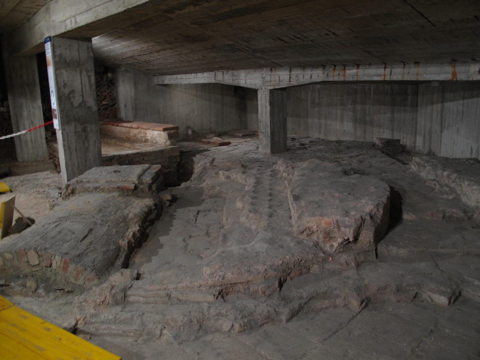 Ruins of the Imperial Mausoleum under San Vittore al Corpo (Milan)